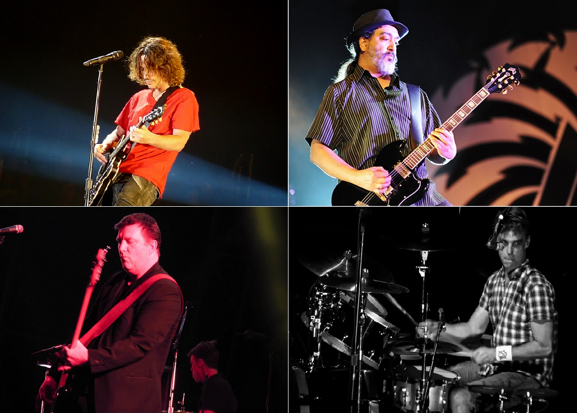 L-R: Chris Cornell, Kim, Thayil, Ben Shepherd, Matt Cameron